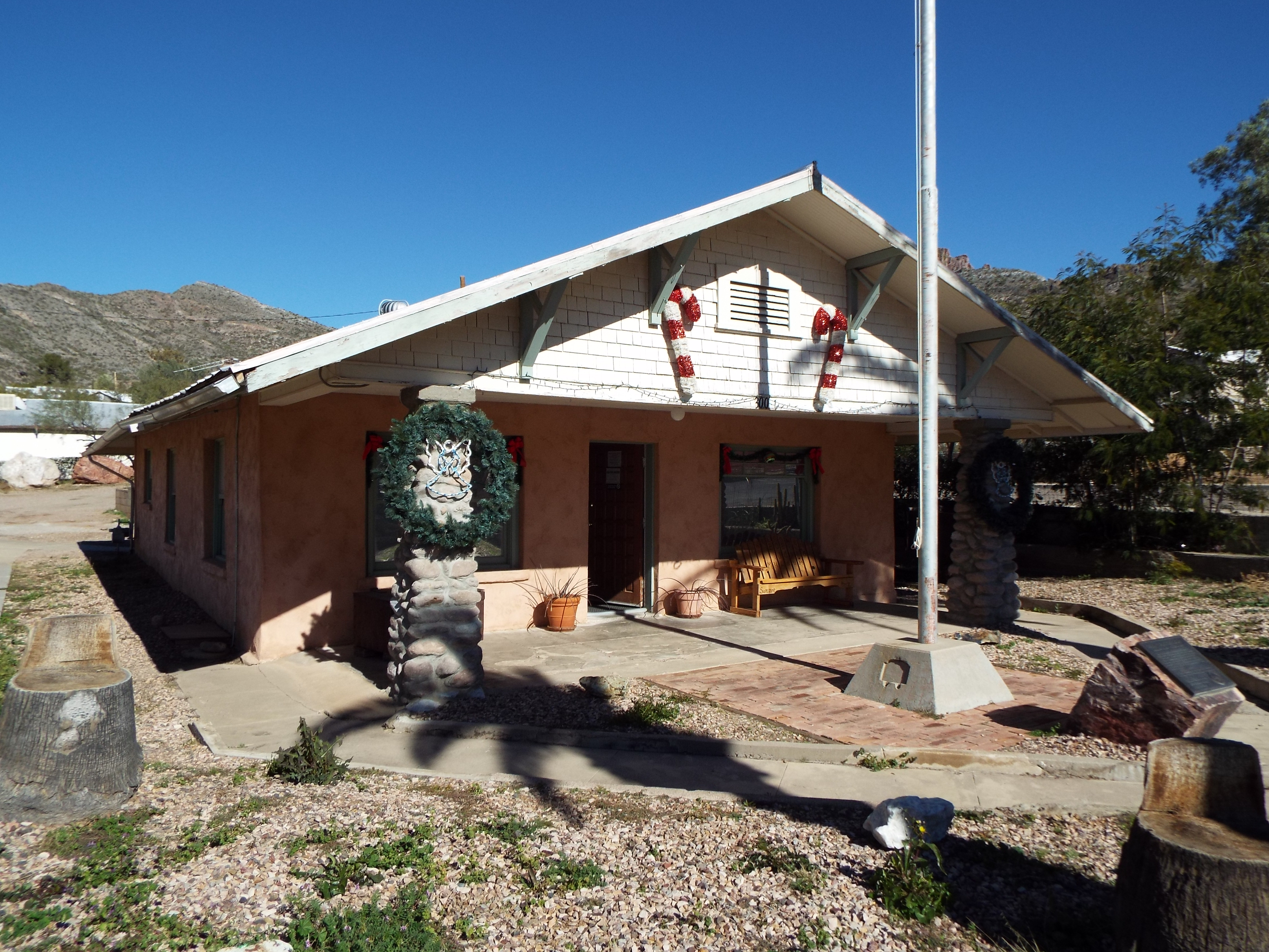 Arizona Governor Robert "Bob" Jones House built in 1910 and located at 300 Main Street in Superior, Az.